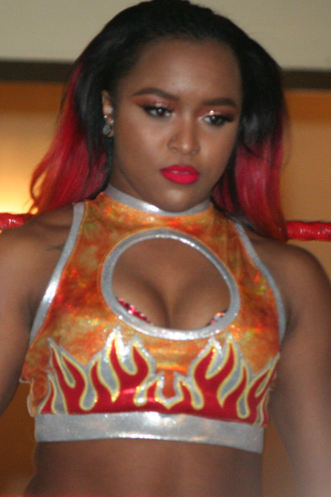 Kiera Hogan at an AWE show in December 2017.